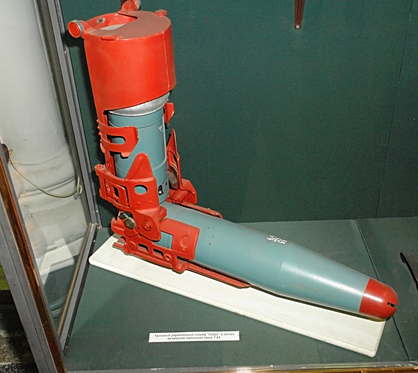 A 125 mm calibre 9K112 Kobra" tank round, it is a gun launched rocket-assisted guided projectile (known as a Cannon launched guided projectile or CLGP in US parlance). Range is 100 - 4000 metres, flight speed is 400 m/s. Armor-piercing ability (against spaced armour) is up to 700 mm and the probability of destruction of targets is 80%. (Seen here as two sub units in the loading chutes of the auto loader mechanism of a T-64 tank, the two modules being joined on being loaded.) Petersburg, Russia 29.09.2007